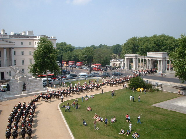 Hyde Park Corner London Picture take from top of Wellington Arch showing rehearsal for Trooping the Colour